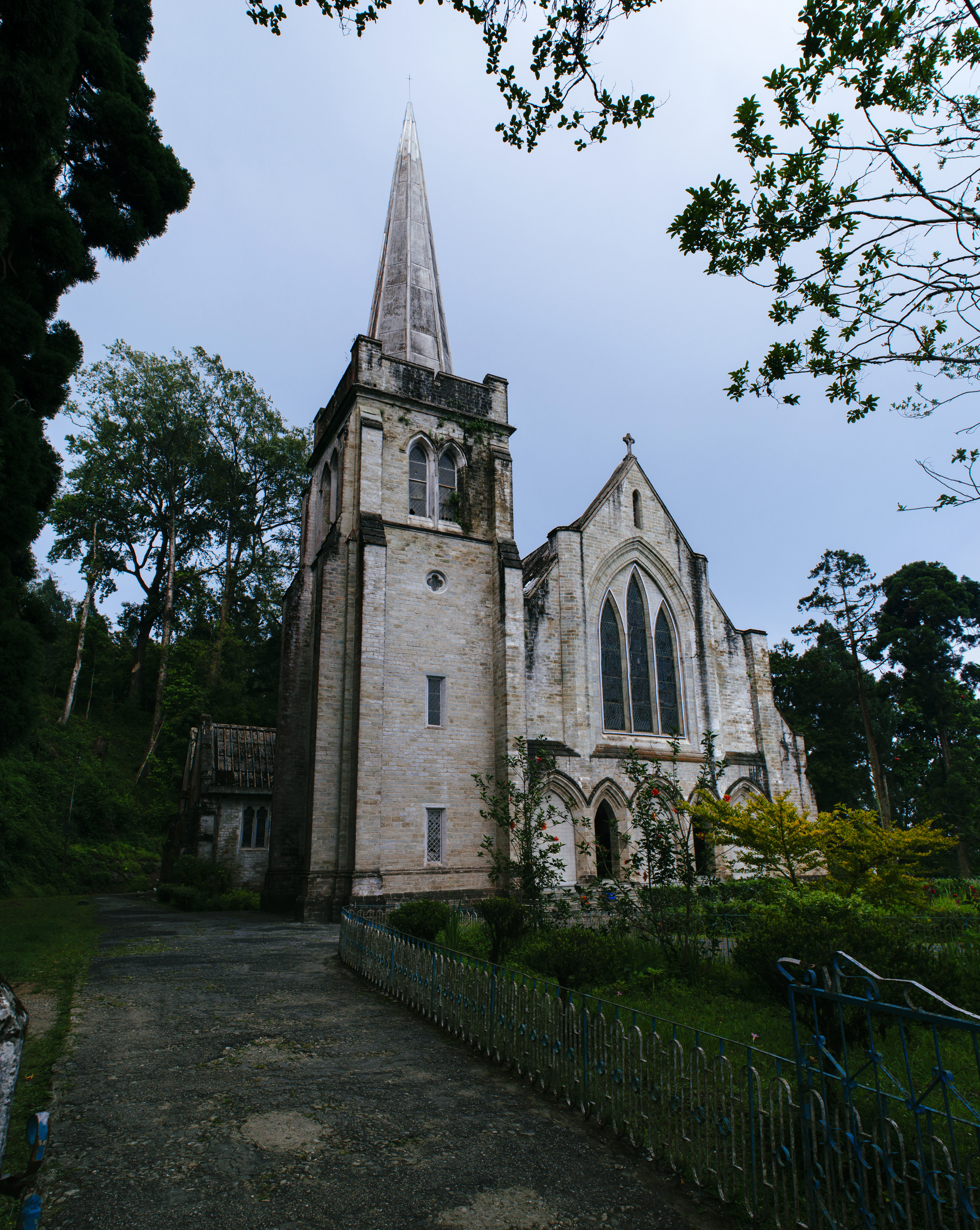 Katherine Graham Memorial Chapel, Dr. Graham's Homes, Kalimpong, West Bengal Side